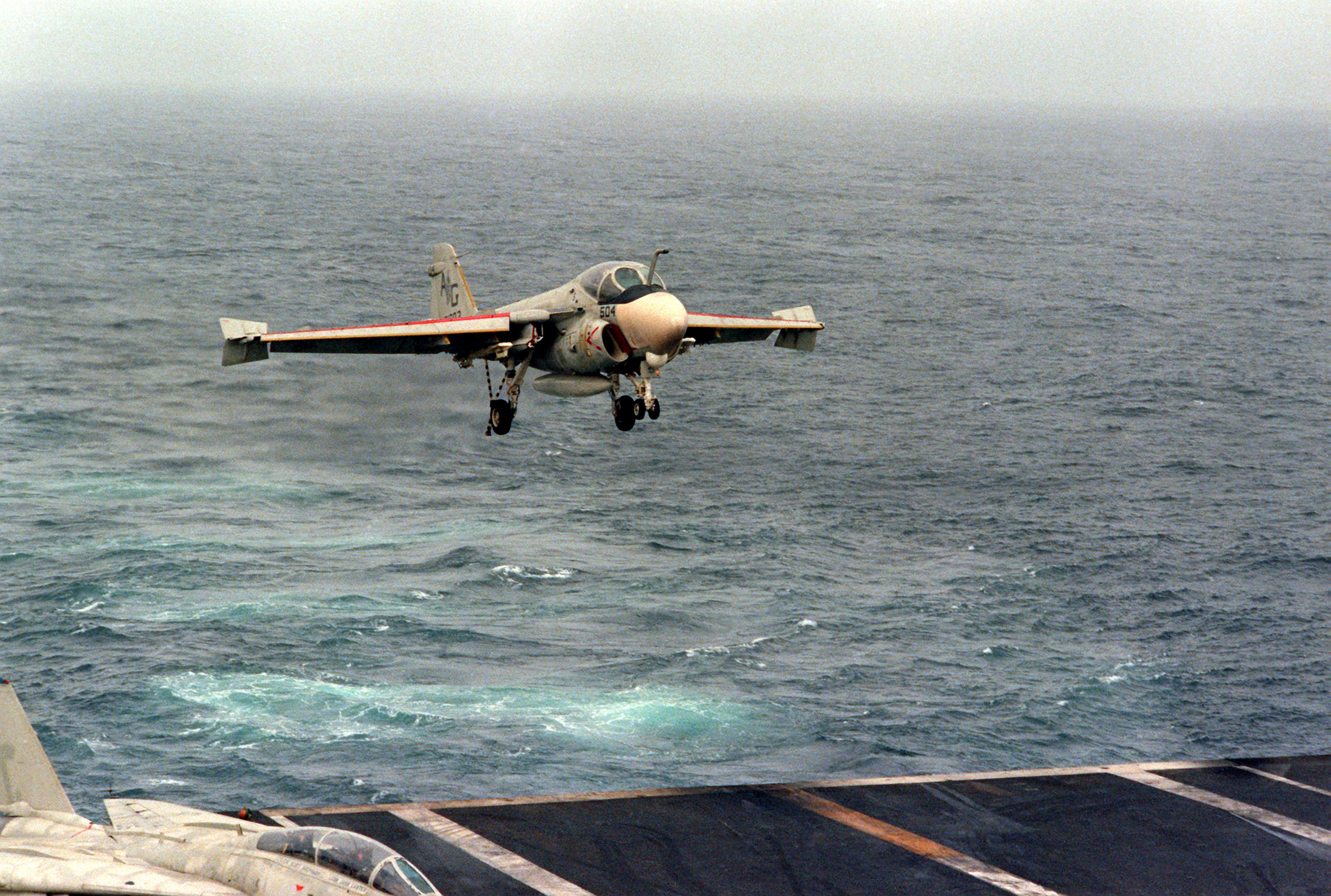 A U.S. Navy Grumman A-6E Intruder aircraft, with its arresting hook down, approaches for a landing on the flight deck of the nuclear-powered aircraft carrier USS Dwight D. Eisenhower (CVN-69). The A-6E is assigned to Medium Attack Squadron 65 (VA-65).